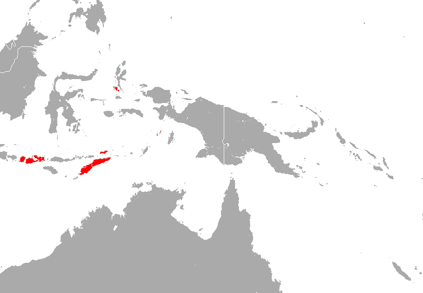 Insular Horseshoe Bat (Rhinolophus keyensis) range